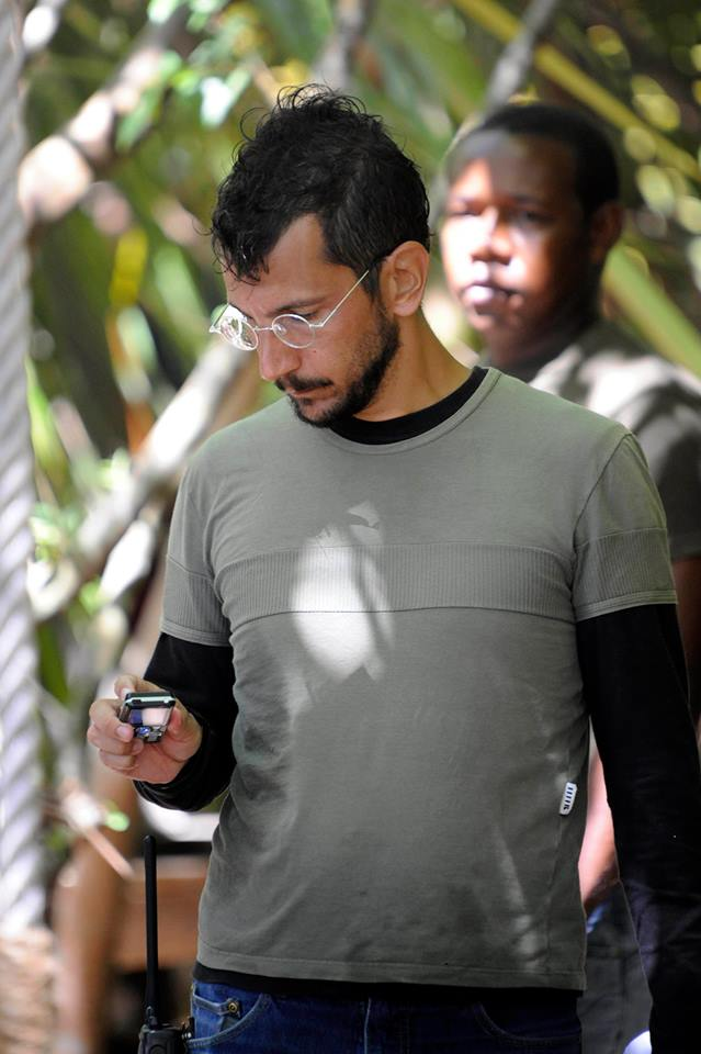 Paolo Mosca